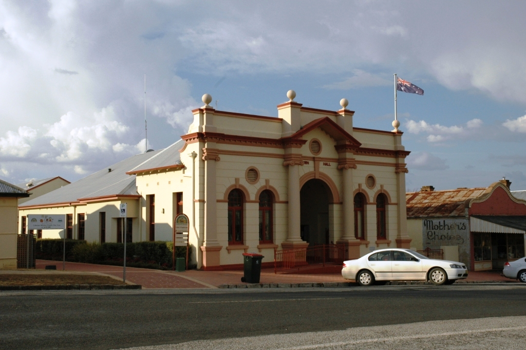 Town Hall in Bank Street at Molong, New South Wales.